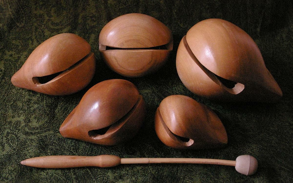 Set of five wooden temple blocks from modern industrial production